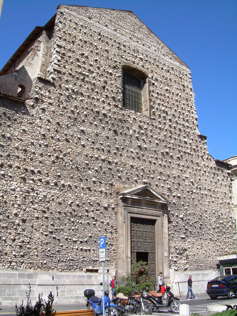 Church of Santa Margherita in L'Aquila